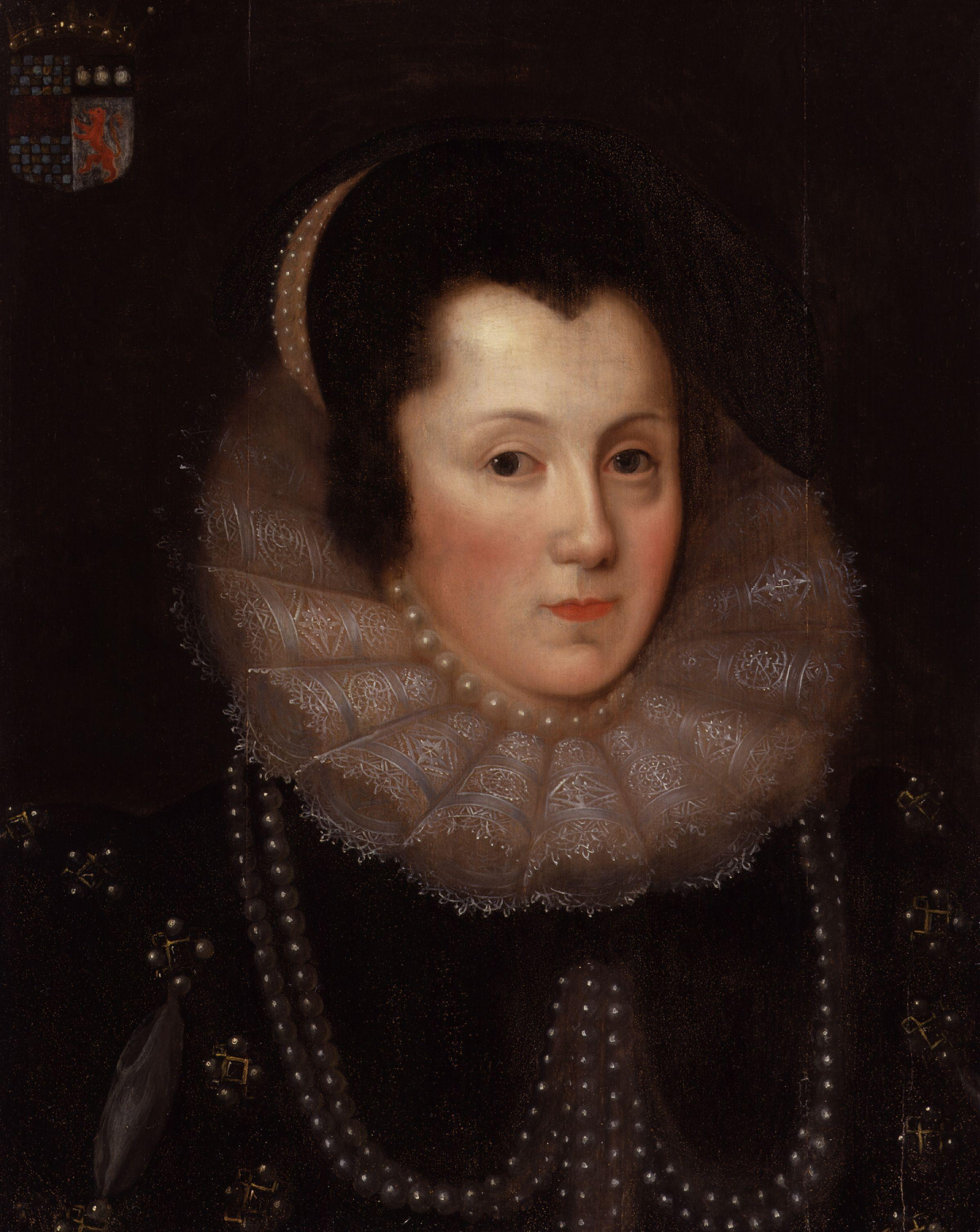 Margaret, Countess of Cumberland, by unknown artist, given to the National Portrait Gallery, London in 1876. All images in this batch are listed as "unknown author" by the NPG, who is diligent in researching authors, and was donated to the NPG before 1939 according to their website.